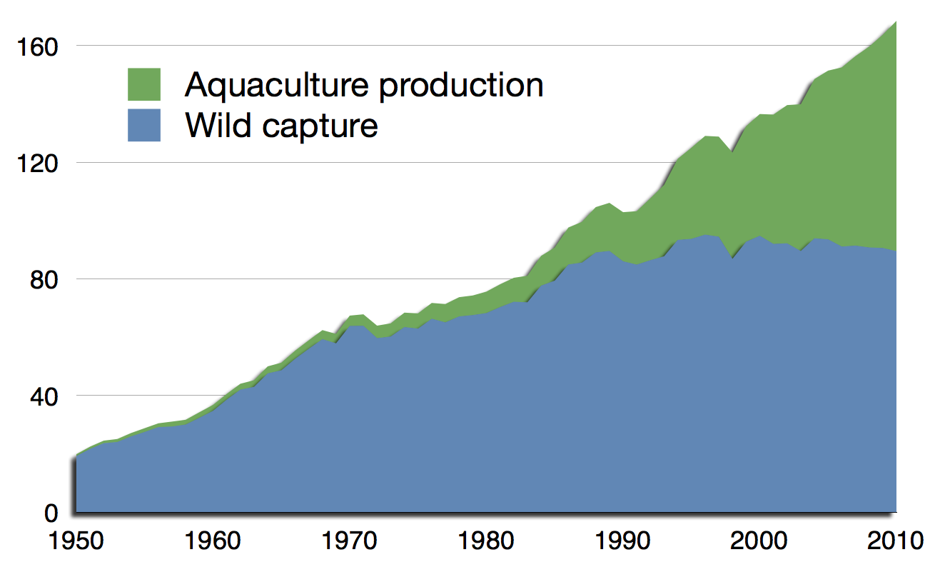 Global total wild fish capture and aquaculture production in million tonnes, 1950–2010, as reported by the FAO. Based on data sourced from the FishStat database